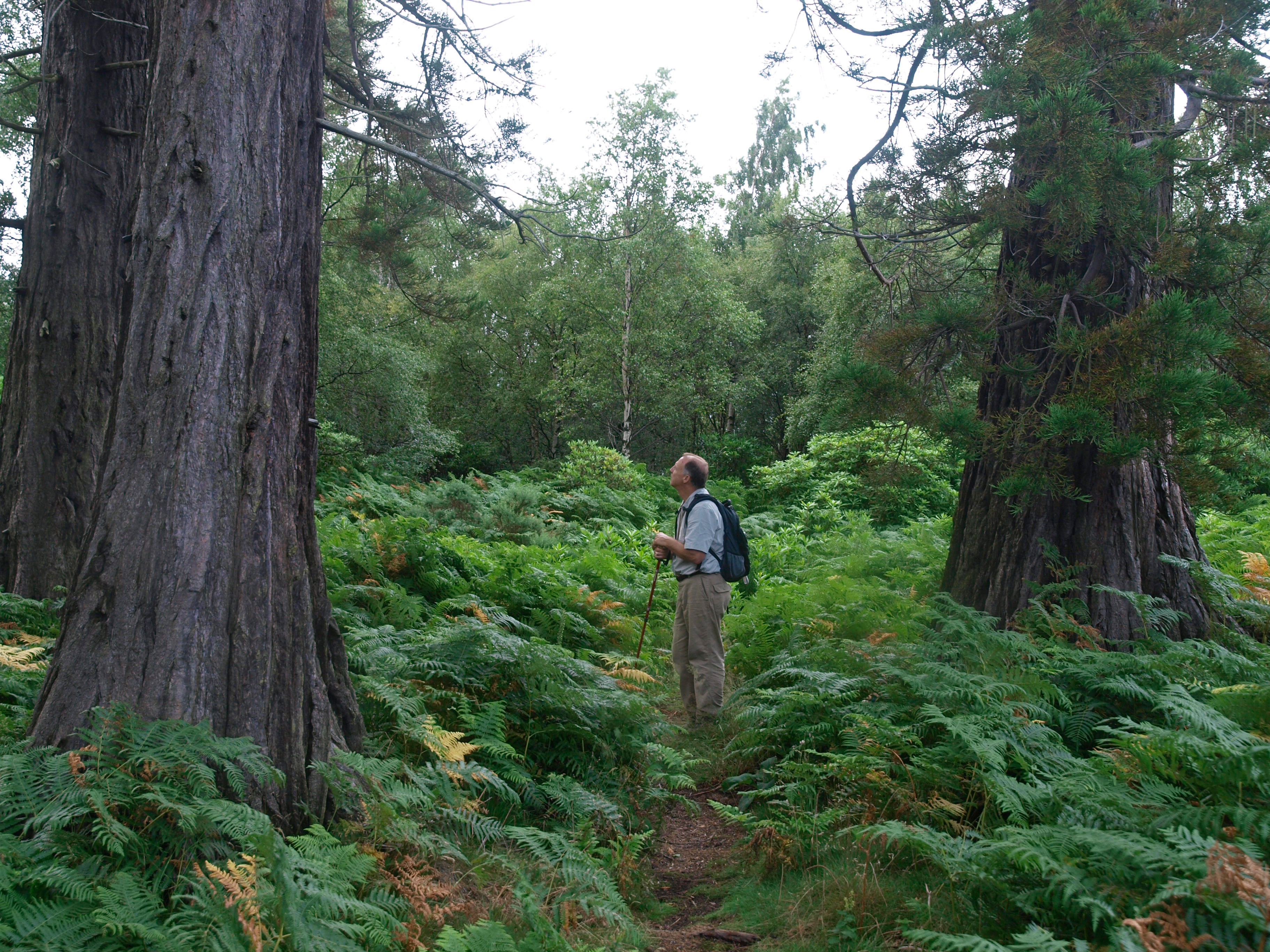 Grove of five Giant Sequoia on top of Gillies Hill, Cambusbarron, Scotland